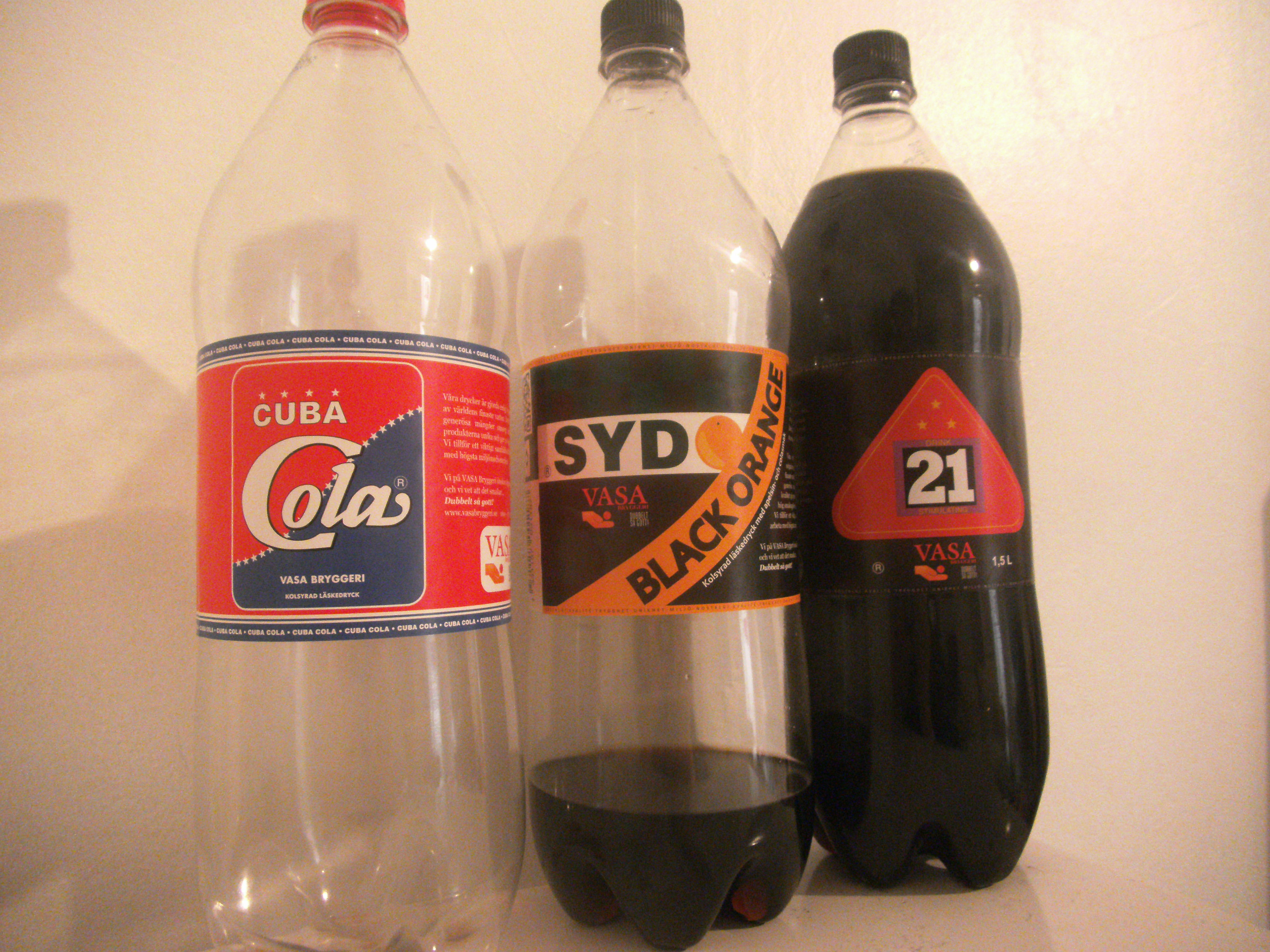 Cuba cola, Syd black orange and Drink 21, three swedish soft drinks.